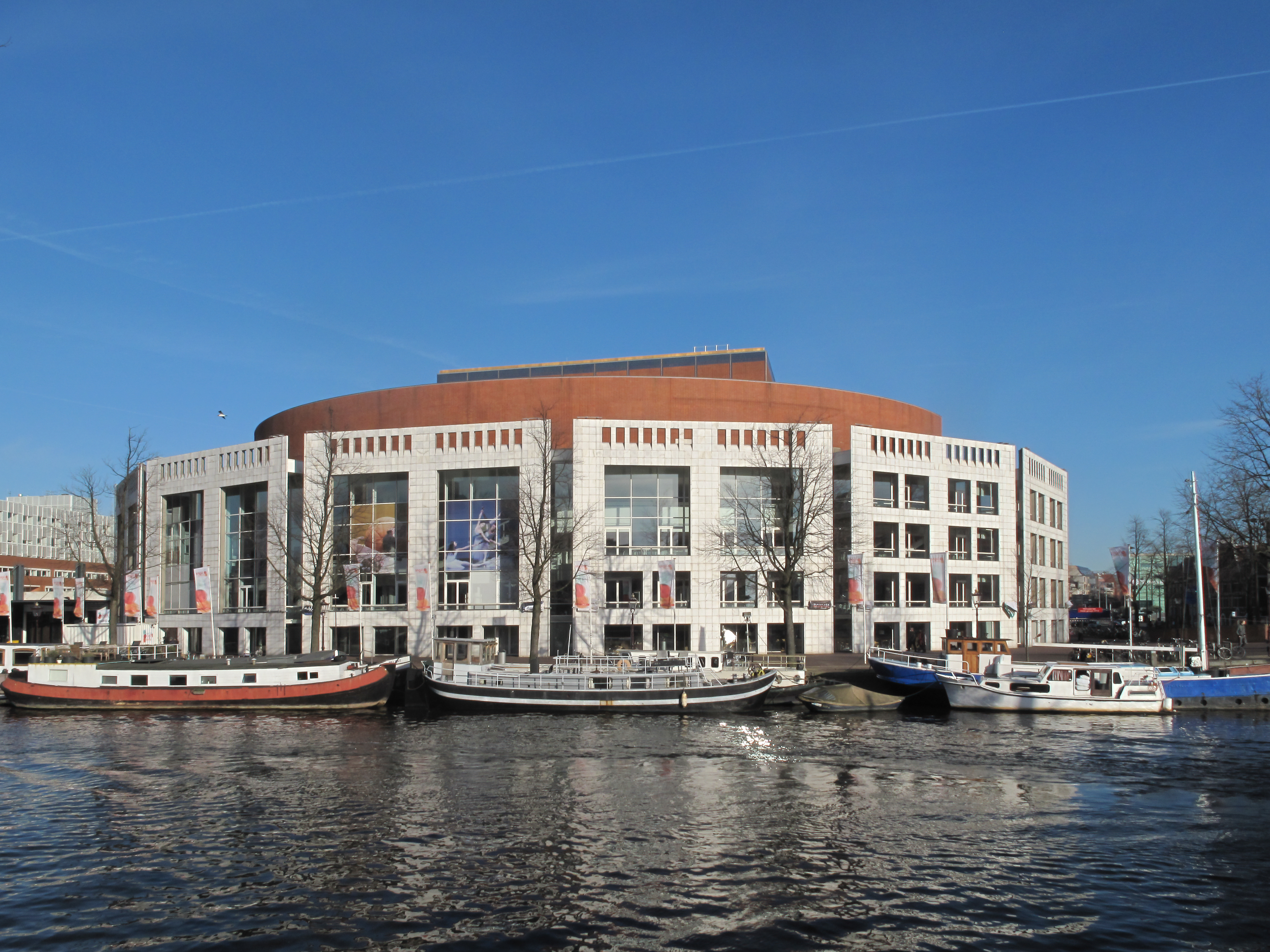 Amsterdam, townhall-opera building: de Stopera